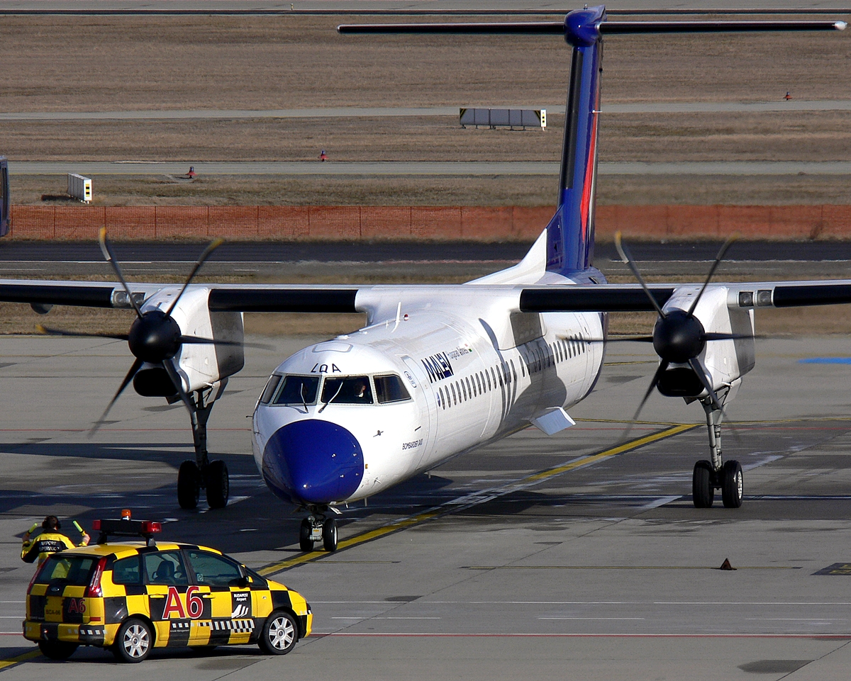 De Havilland Canada Dash DHC-8-402Q in Malev Hungarian Airlines' colors (reg. code: HA-LQA) This is aircraft is the first Q400 in Malev's fleet.